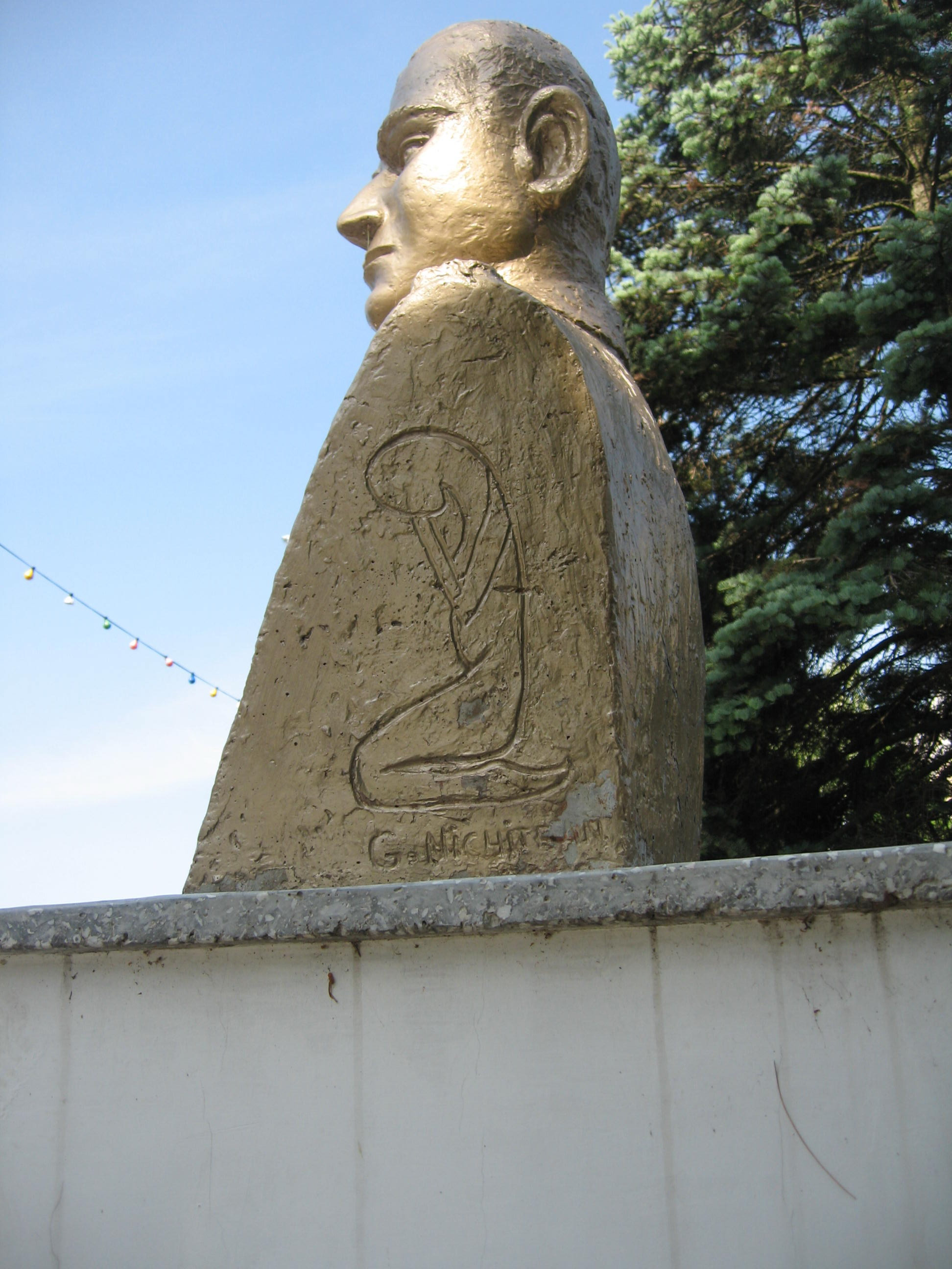 Statue of Gheorghe Flondor in Radautz